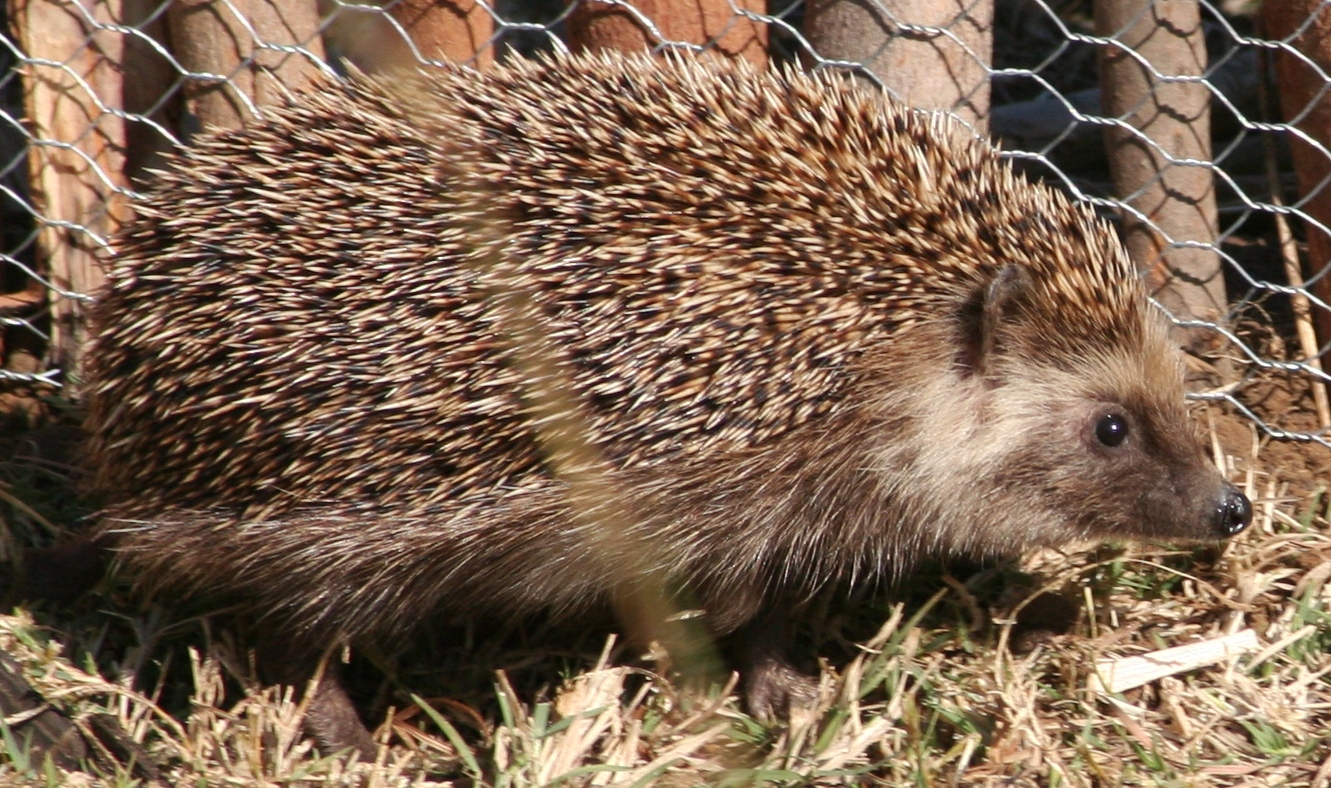 Southern African Hedgehog seen from the right